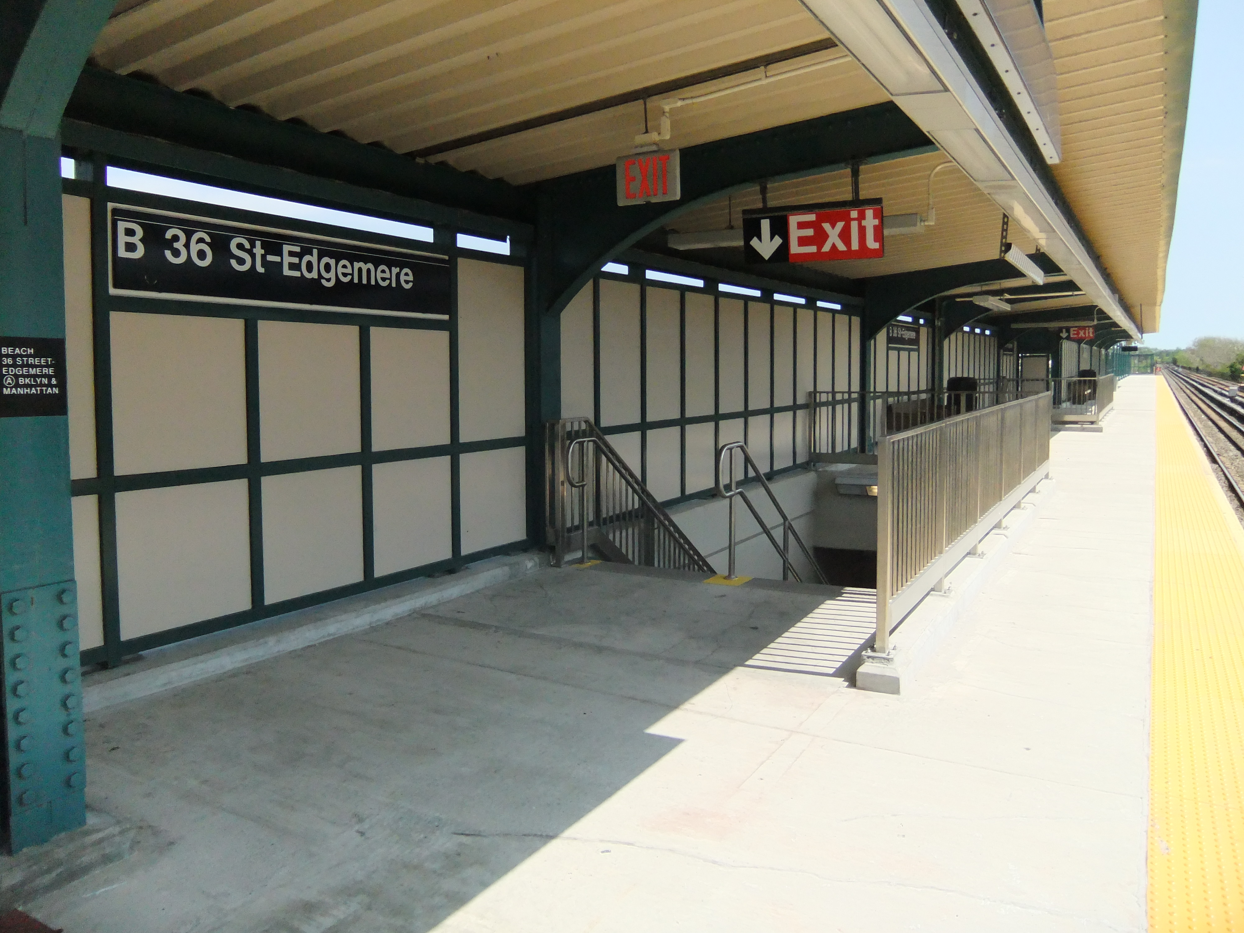 Exit to Beach 36th Street and Rkwy Freeway at the Beach 36th Street - Edgemere Station